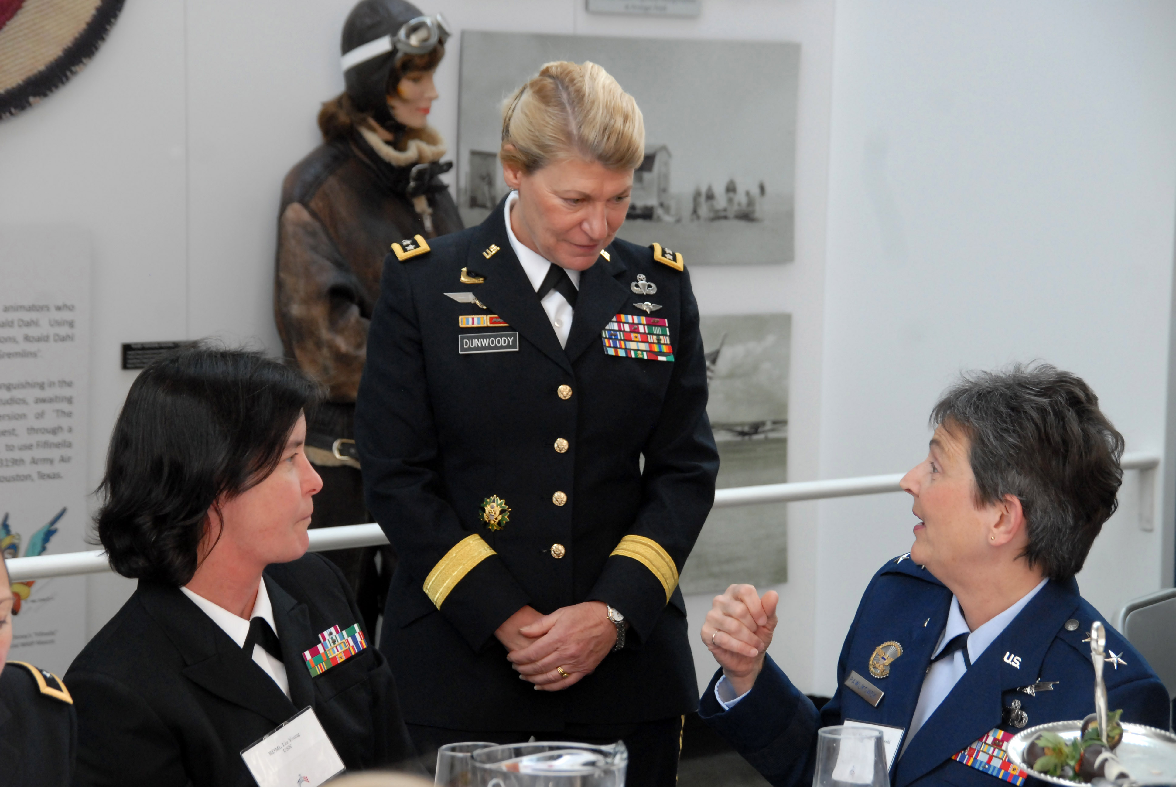 Gen. Ann Dunwoody meets with Rear Adm. Liz Young and Air Force Maj. Gen. Ellen M. Pawlikowski during a lunch in her honor, Feb. 7, at the Women in Military Service for America memorial at Arlington National Cemetery. Female flag officers honor first woman four-star